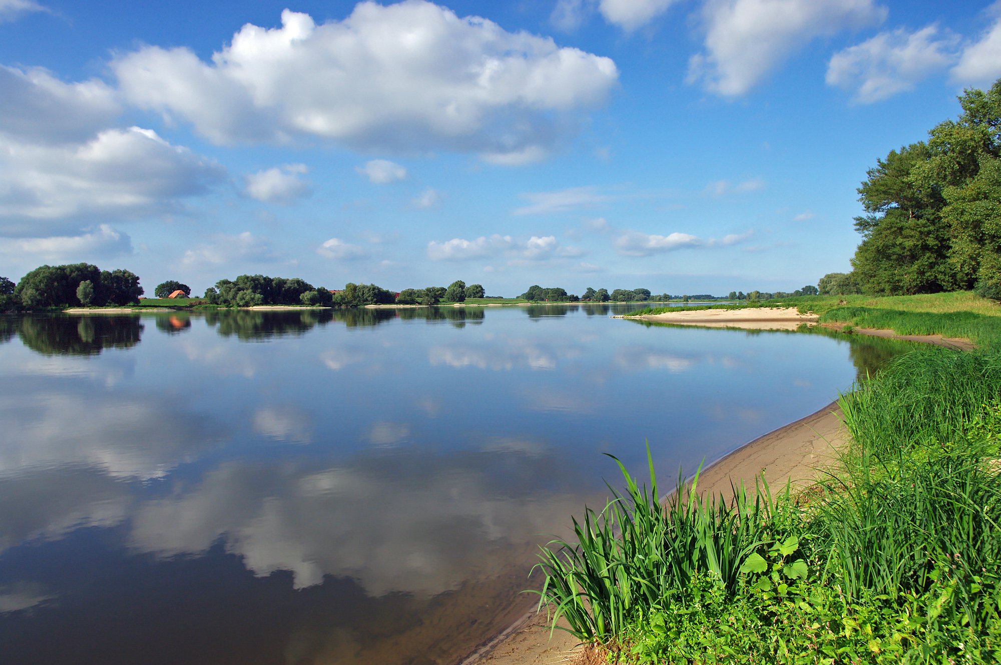 At the river Elbe (district Lüchow-Dannenberg).